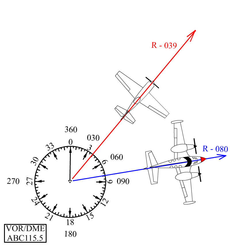 Description about relations of azimuth from a VOR and aircraft heading.